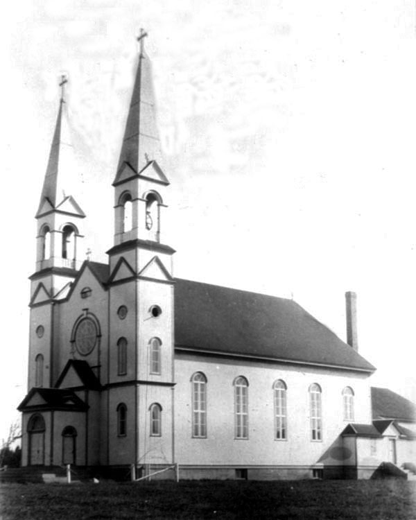 The Saint Cecile church in Petite-Rivière-de-l'Île, New Brunswick, circa 1930.